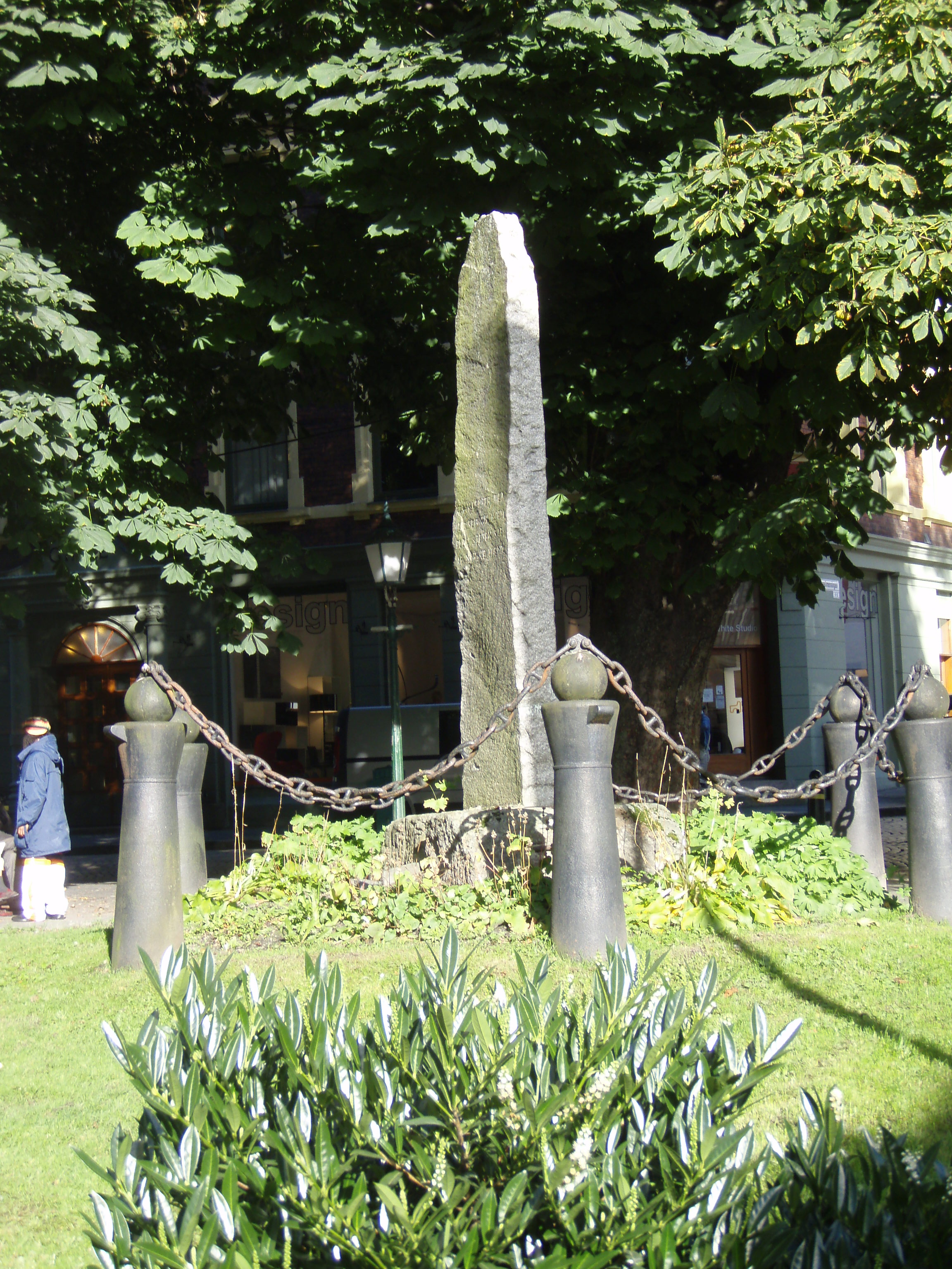 Memorial of a skirmish in a Norwegian fjord (Hjeltefjorden) just outside of Bergen, Norway, May, 16, 1808, between British Navy vessel "Tartar" and 5 Norwegian gun-sloops. Made of a Bautastone, and fencing made of guns and bullets.